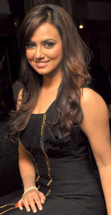 Sana Khan's bash